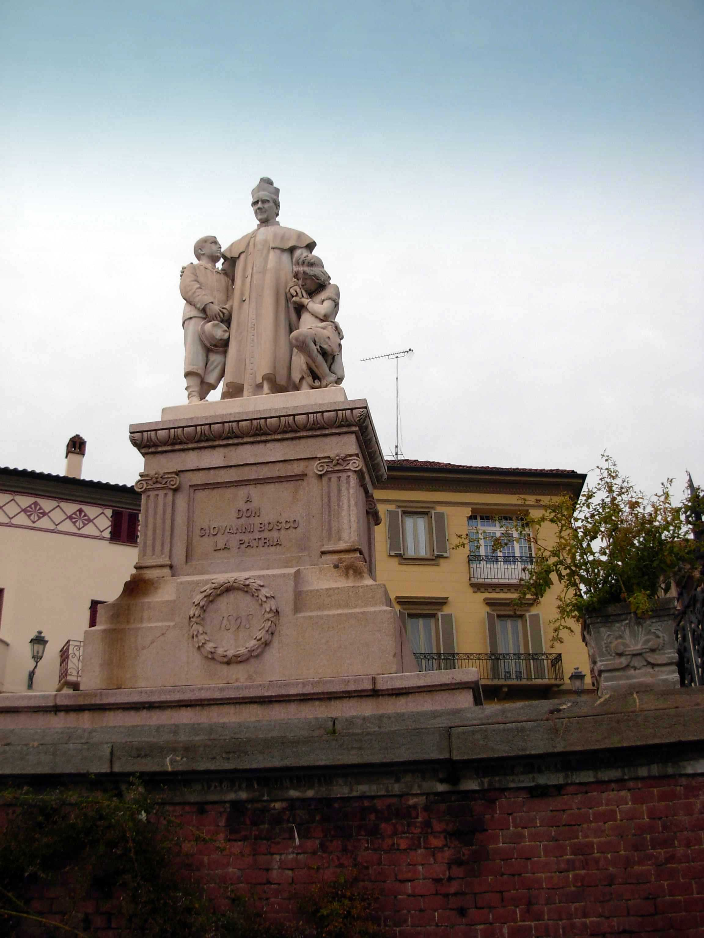 Memoriale (statue) of don Bosco with boys in Castelnouvo 1898